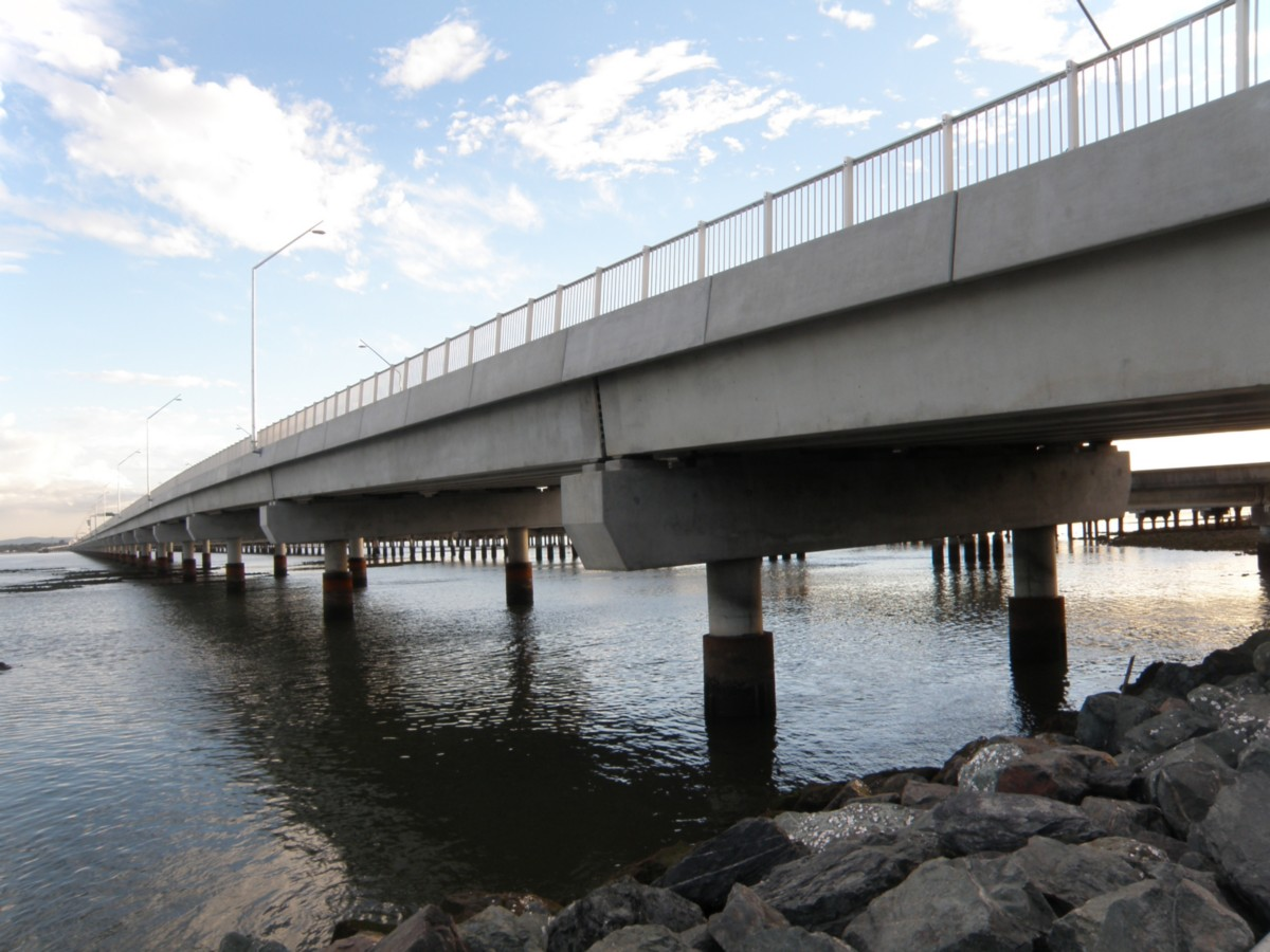 Ted Smout Bridge - Clontarf_Abutment - View from Clontarf Foreshore